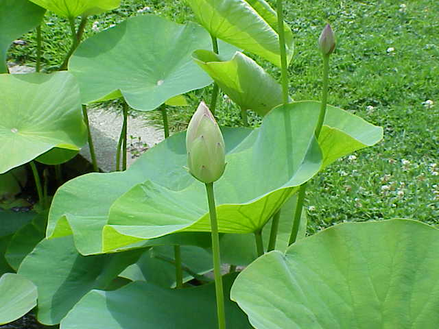 Species: Nelumbo nucifera nucifea Family: Nymphyaeaceae Image No. 1